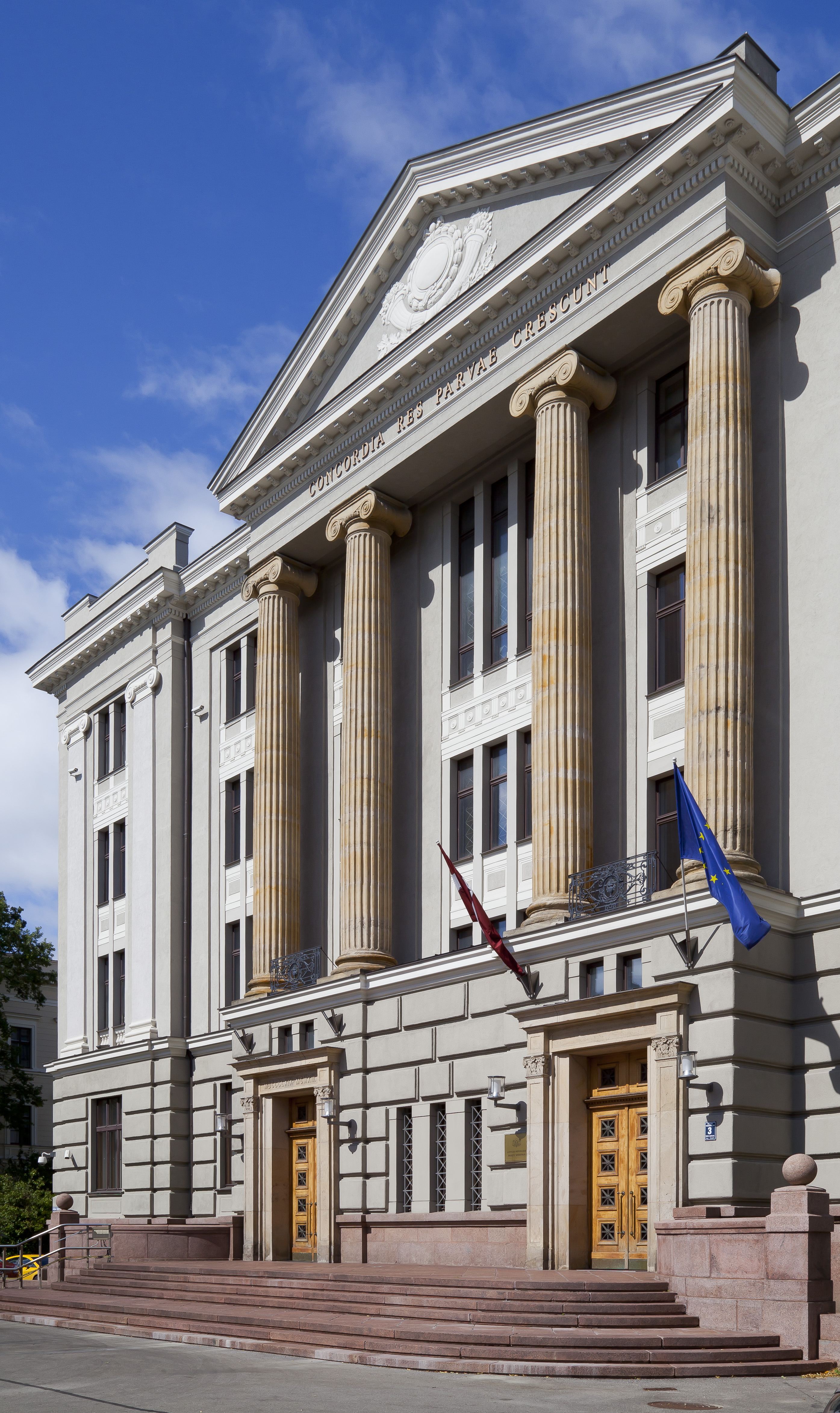 Foreign Ministery, Riga, Latvia